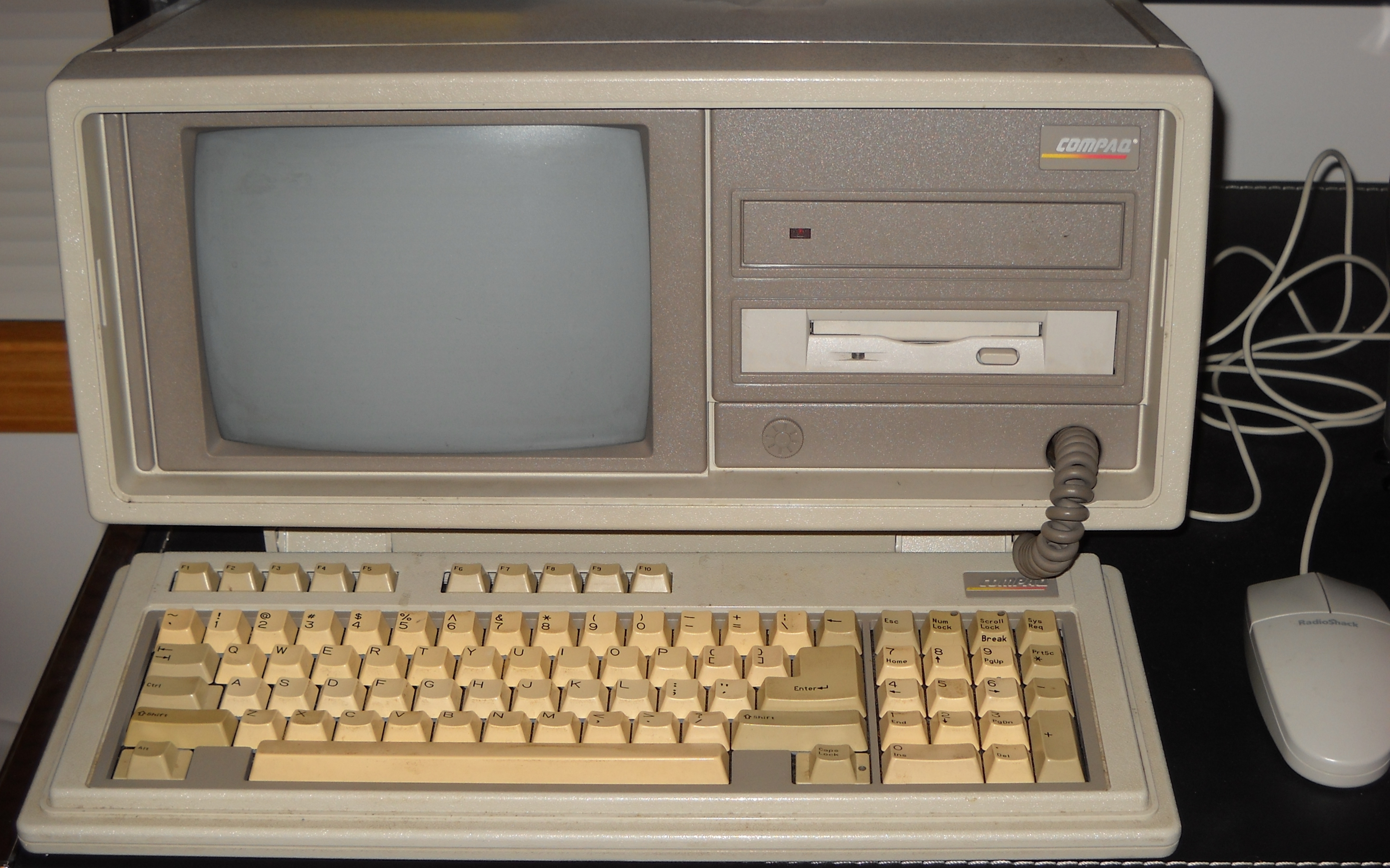 Compaq Portable II Computer (with Radio Shack brand serial mouse) Also note 3.5inch floppy drive is a modification, normally has 5.25inch floppy as standard.